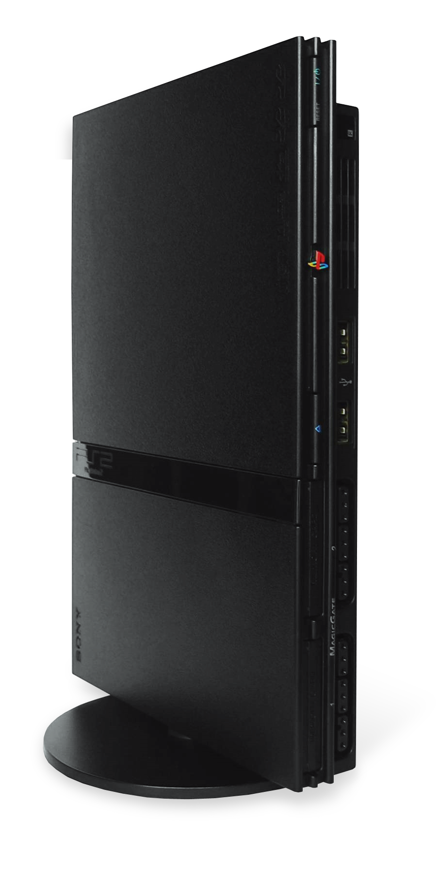 PlayStation 2 (SCPH-75000CB)